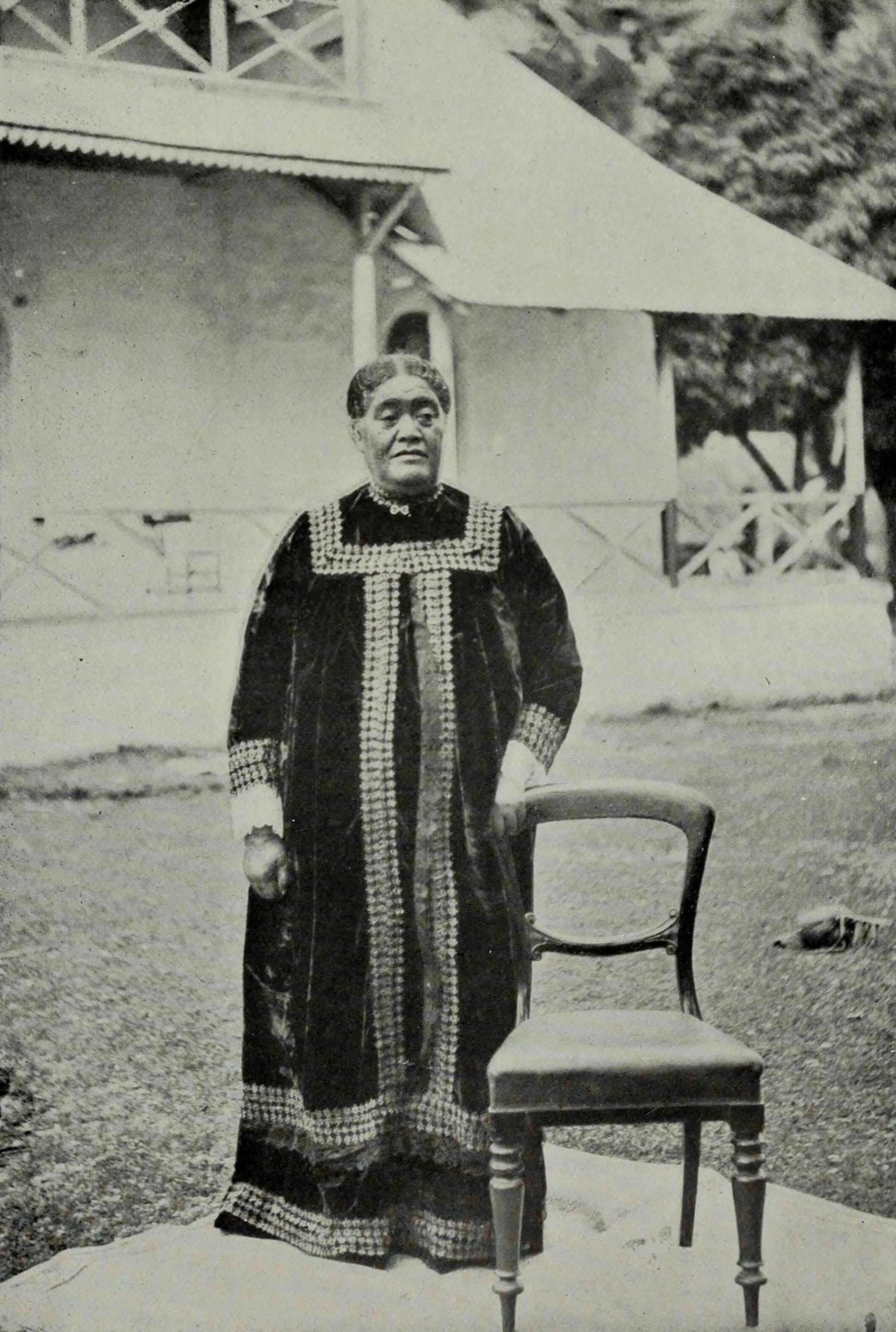 Queen Makea of Rarotonga.